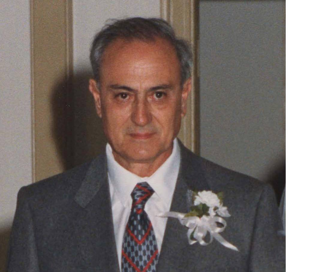 Umberto Albini